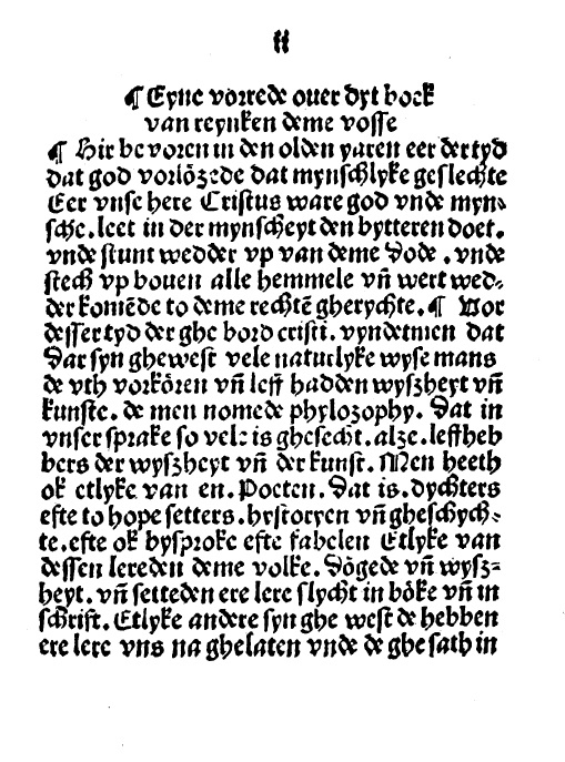 First page of the prologue of 'Reynke de Vos' (Lübeck 1498), a Middle Low German allegorical epic that became hugely popular.